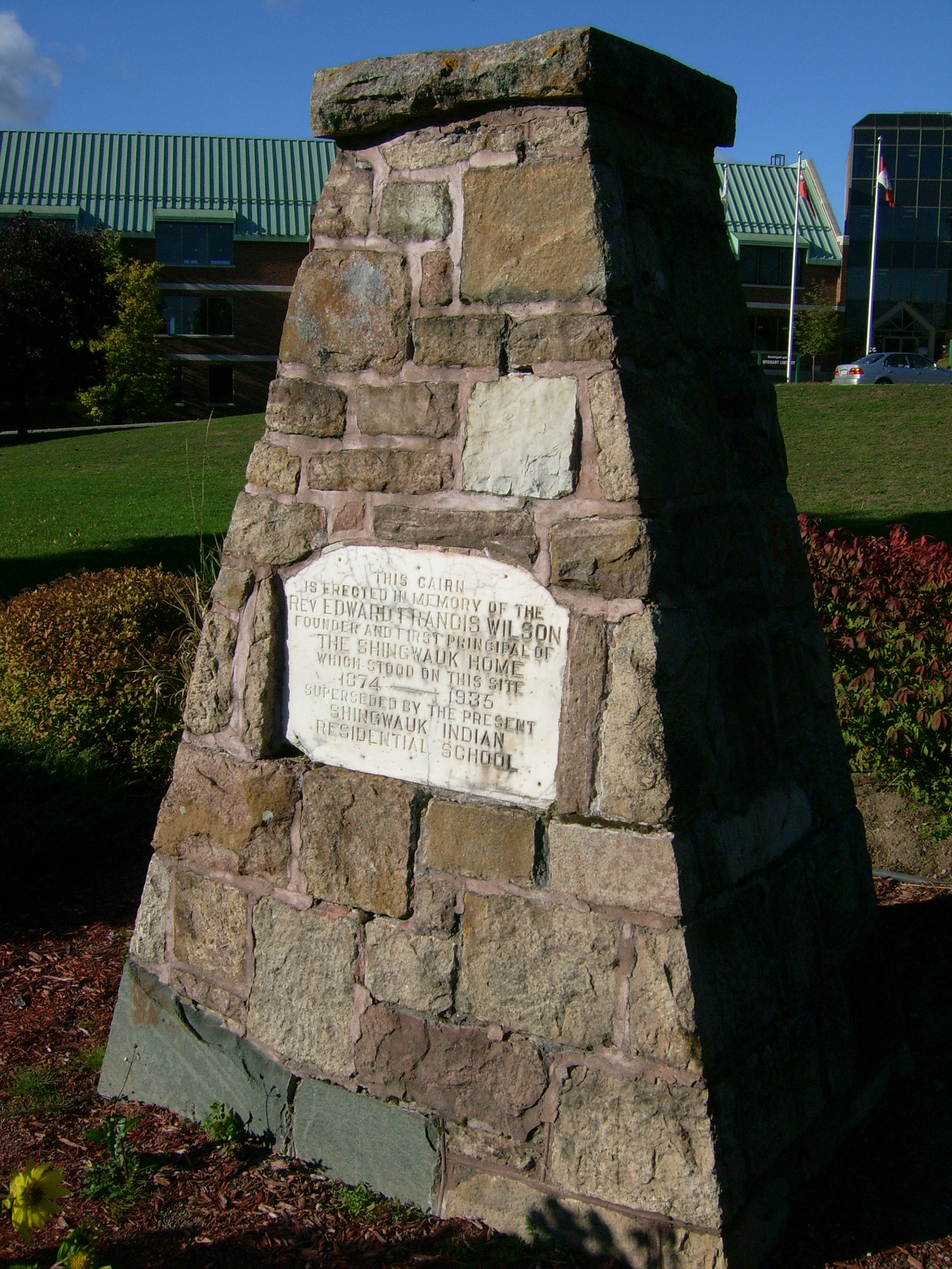 Algoma University, Sault Ste. Marie, Ontario.